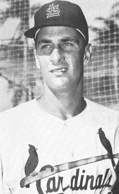 Professional baseball player Jerry Buchek